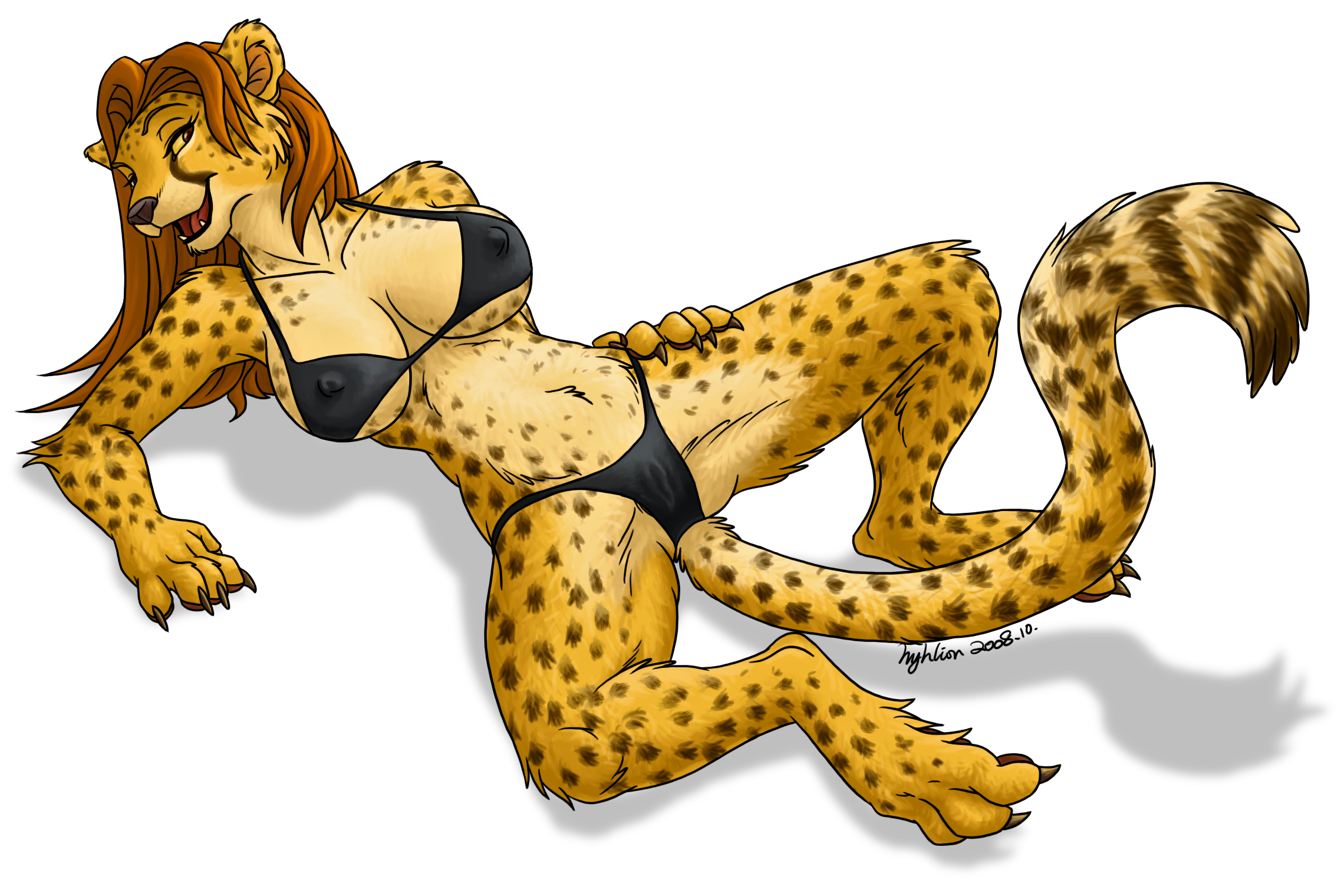 One of the three variants of the artwork Fahada in Black Bikini, featuring the cheetah character “Fahada”.